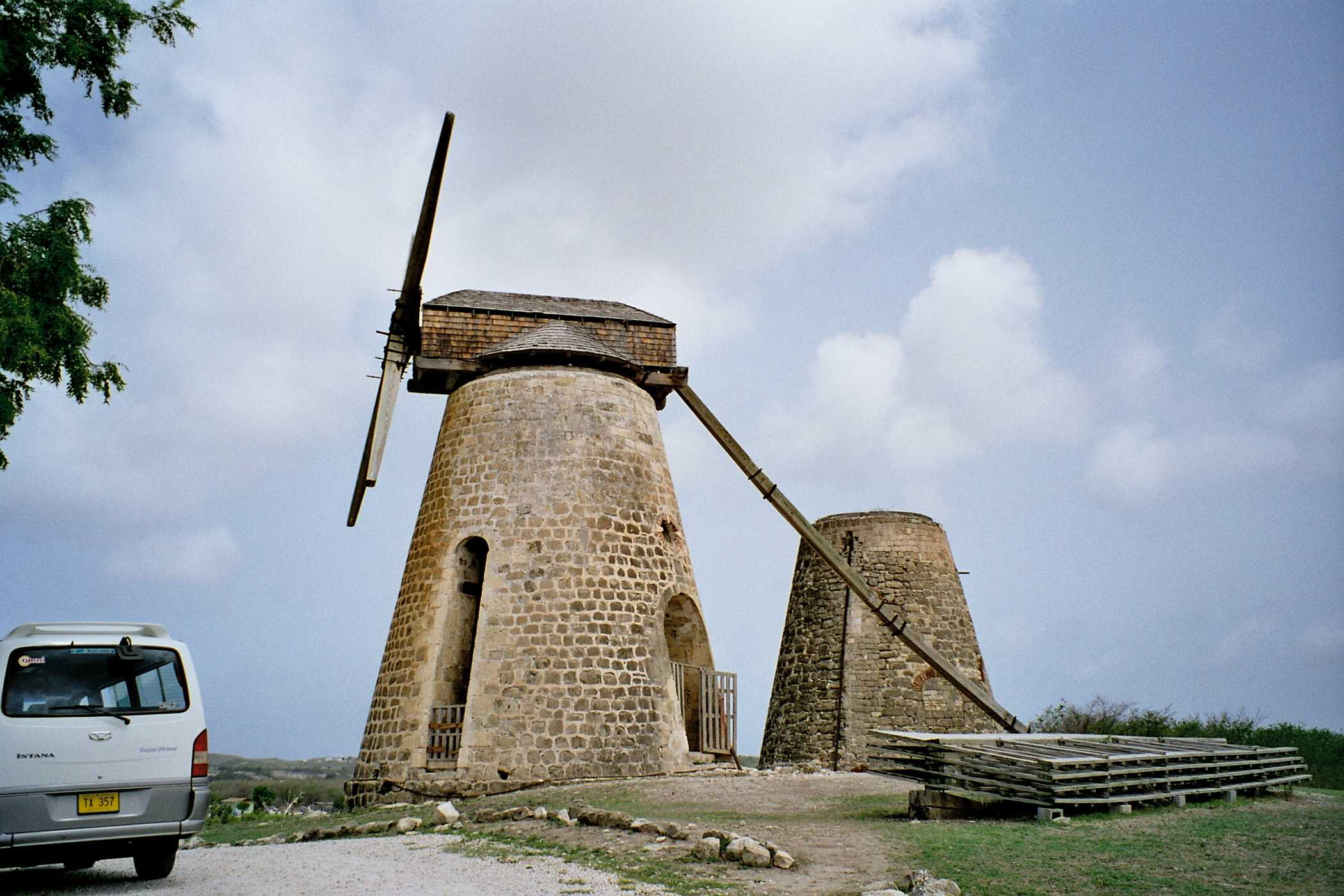 Plantation sugar mills: Antigua, June 2003. Sugar mills in the old plantations.